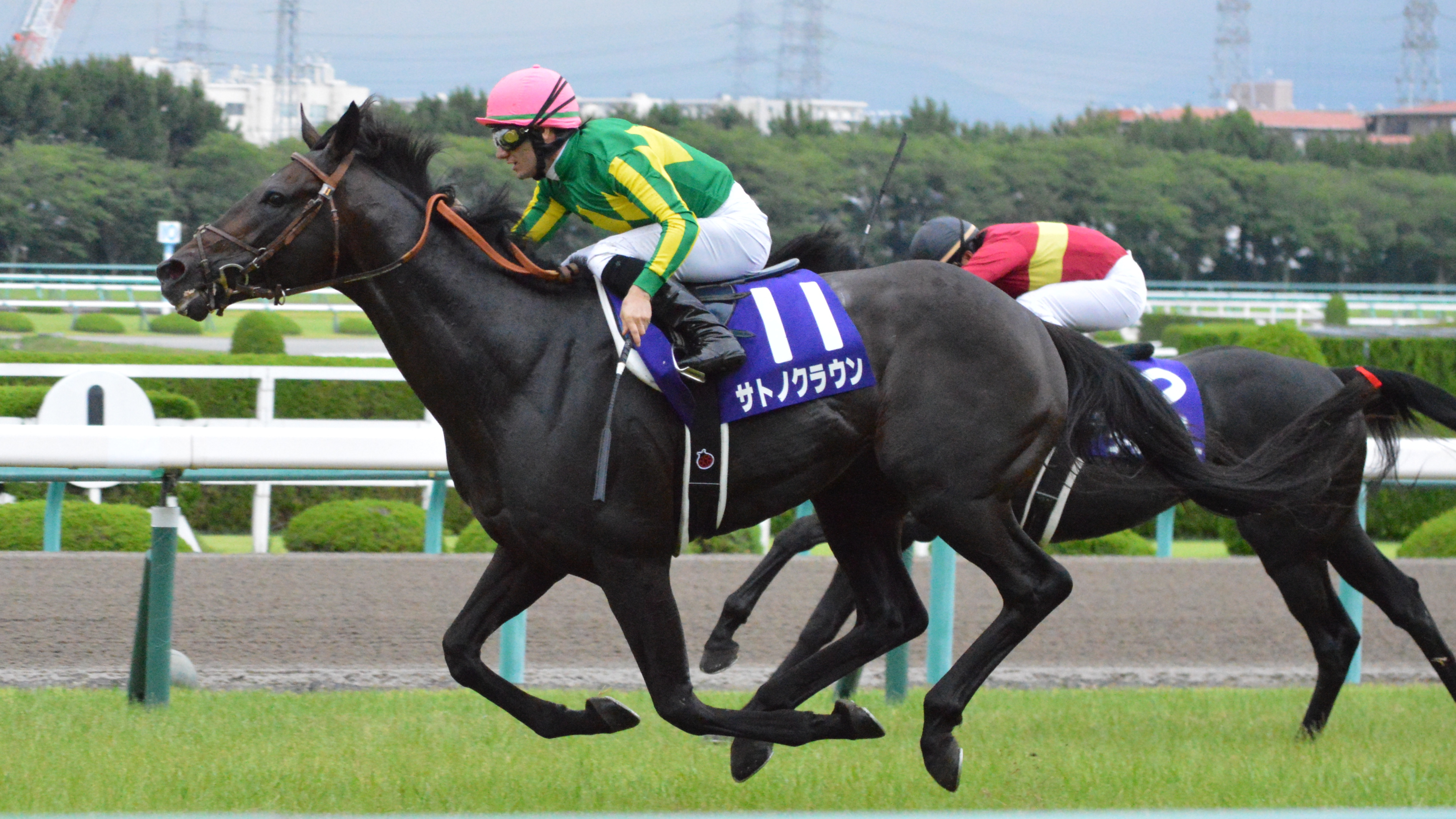 Japanese race horse Satono Crown at Hanshin racecourse.